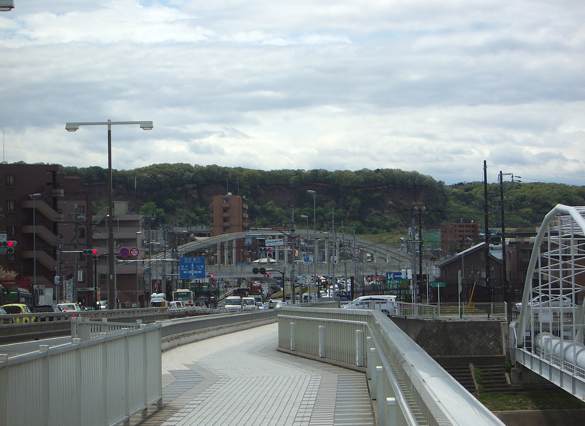 Tama kyuryo (Hills of Tama) from Kawaharabashi